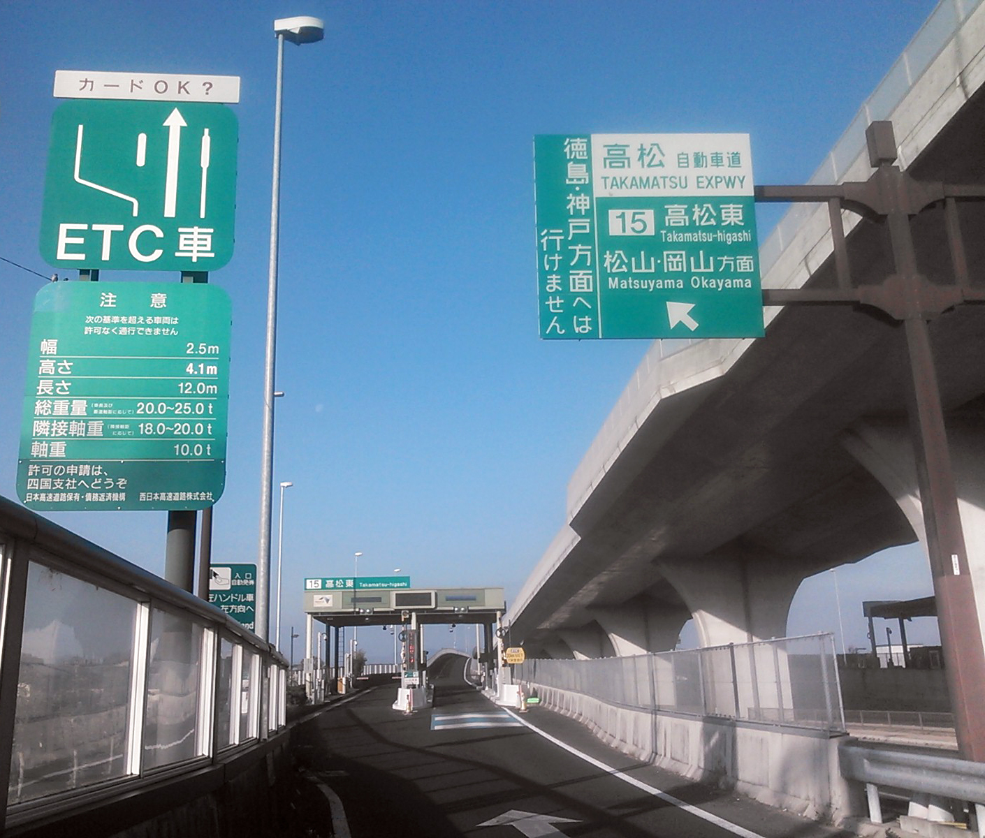 Takamatsu-higashi InterChange, on Takamatsu Expressway, at Maeda-higashimachi, Takamatsu-city, Kagawa-pref. Japan.